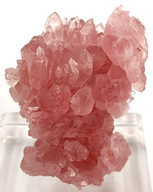 Quartz (Var.: Rose Quartz) Locality: Alto da Pitorra, Laranjeiras, Galiléia, Doce valley, Minas Gerais, Southeast Region, Brazil (Locality at ) Size: 7.8 x 5.9 x 4.8 cm. This is an incredible, glowing rose quartz cluster that is literally rosy and not just "pink," from a small new find here that was collected around January of 2008. The Pitorra Mine is well known for its large rose quartz crystals, but it is not so well known for specimens with such intense color, or an association with clear quartz as well - most are floating free of matrix and association. Aside from the color, though, the specimen has large, fine, translucent crystals and a good aesthetic flowery structure. This is a rare example where a specimen of rose quartz from modern production in Brazil matches head to head with the classic old material from the late 1960s and early 1970s from other mines in this area. This one has bigger, more translucent crystals as well, compared to the Sapucaia finds.